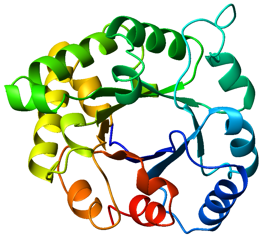 Top view of a TIM barrel (PDB accession code 8TIM). Made with MOLMOL.